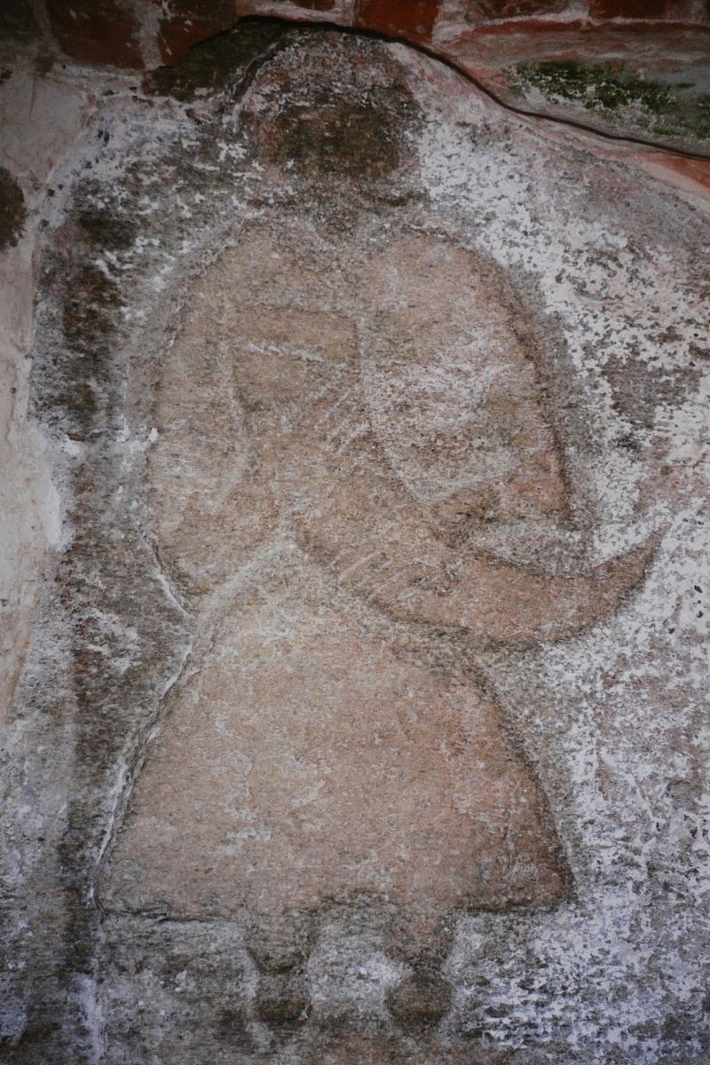 Relief an einem Mauerstein der Pfarrkirche in Altenkirchen, der vermutlich Teil der Jaromarsburg war